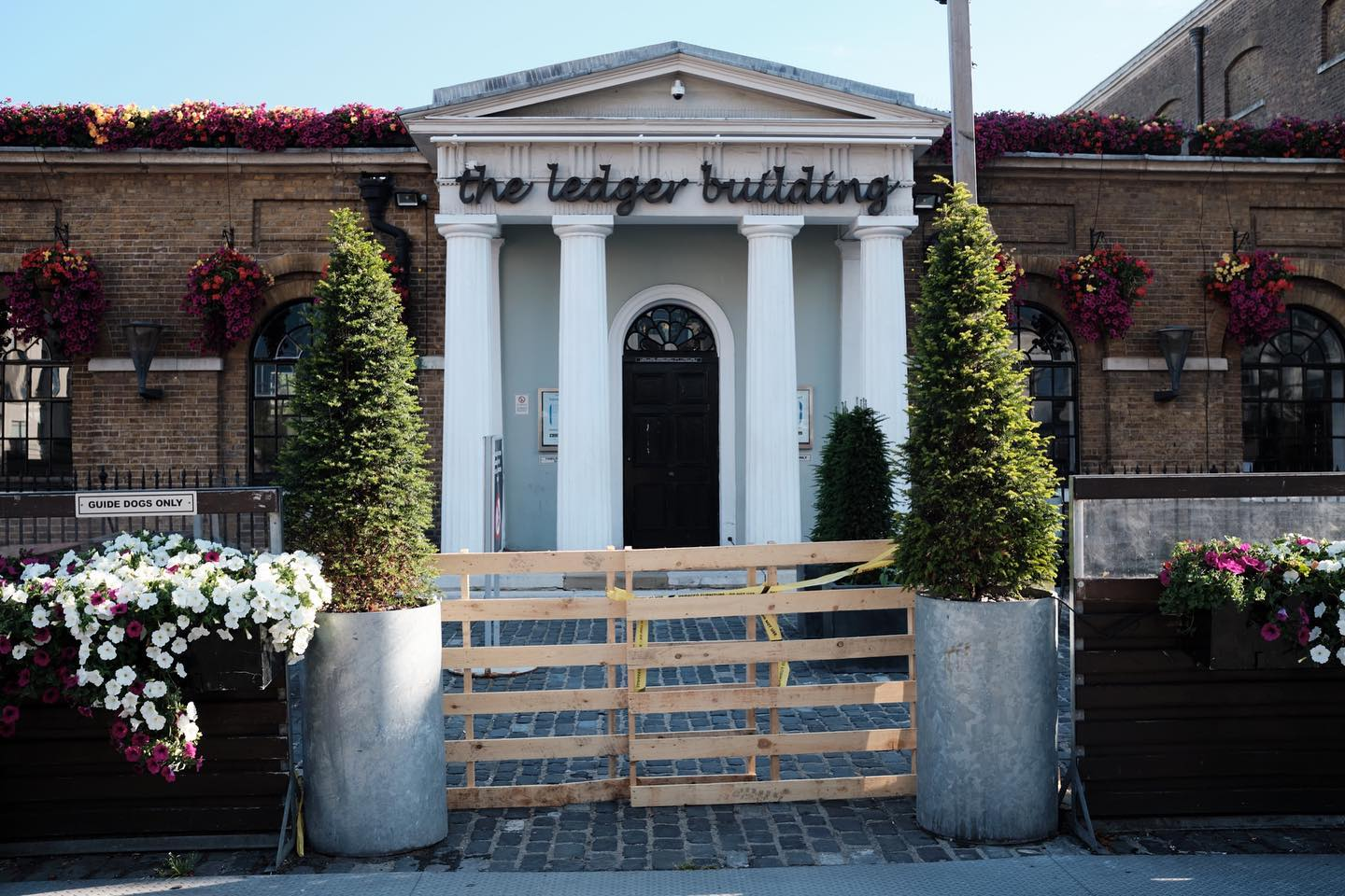 View on Instagram instagr.am/p/CCgfV-8HggY/